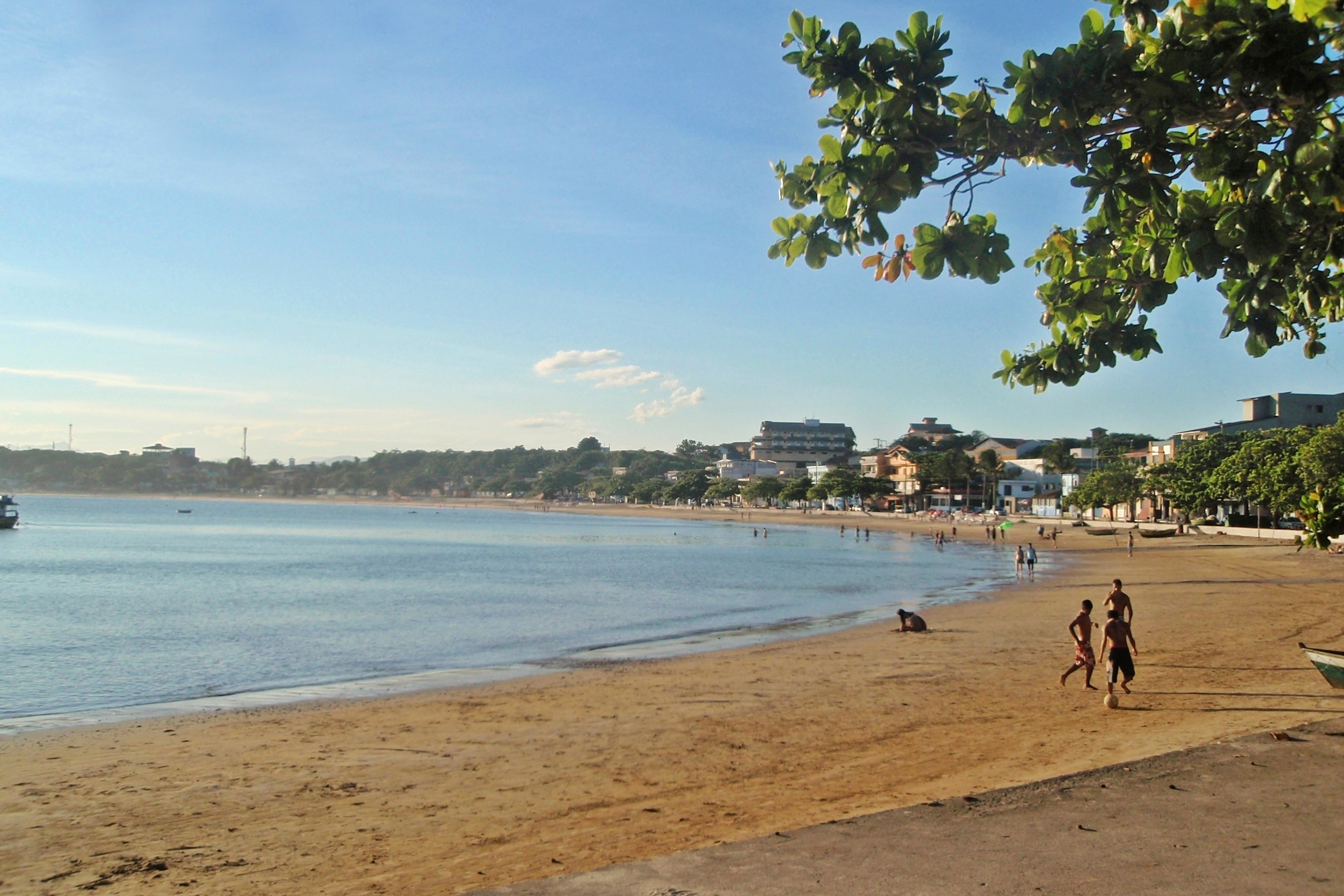 View of the Ubu Beach, in Anchieta, Espírito Santo, Brazil.